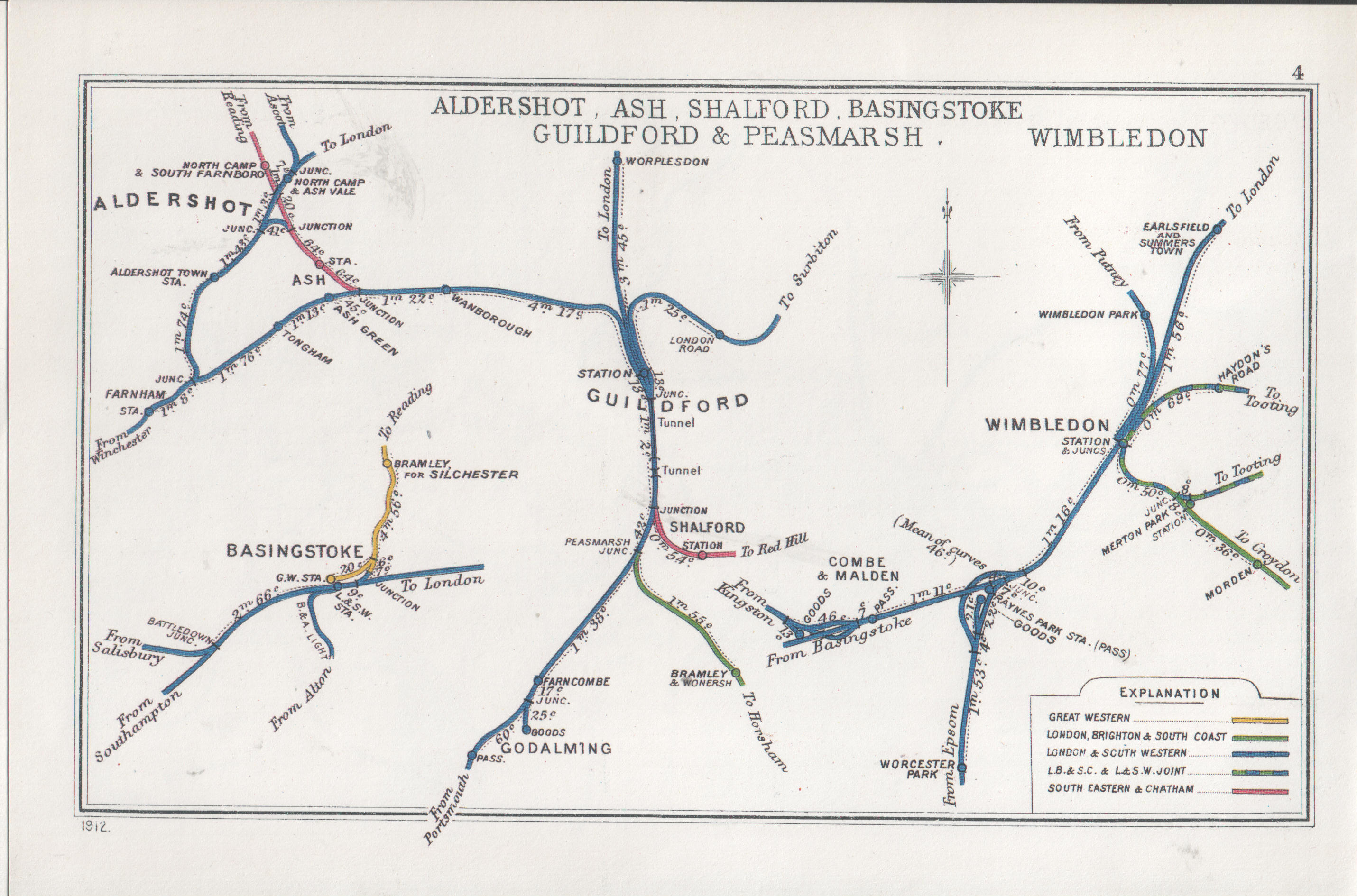 Pre Grouping railway junction around Aldershot, Ash, Shalford, Basingstoke, Guildford & Peasmarsh , Wimbledon